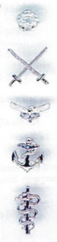 Ribbon bar emblem of the Bar and active service Arm of the Service insignia for the ribbon of the Nkwe ya Selefera - Silver Leopard, post-nominal letters NS, awarded to persons who have distinguished themselves by performing acts of conspicuous bravery during military operations